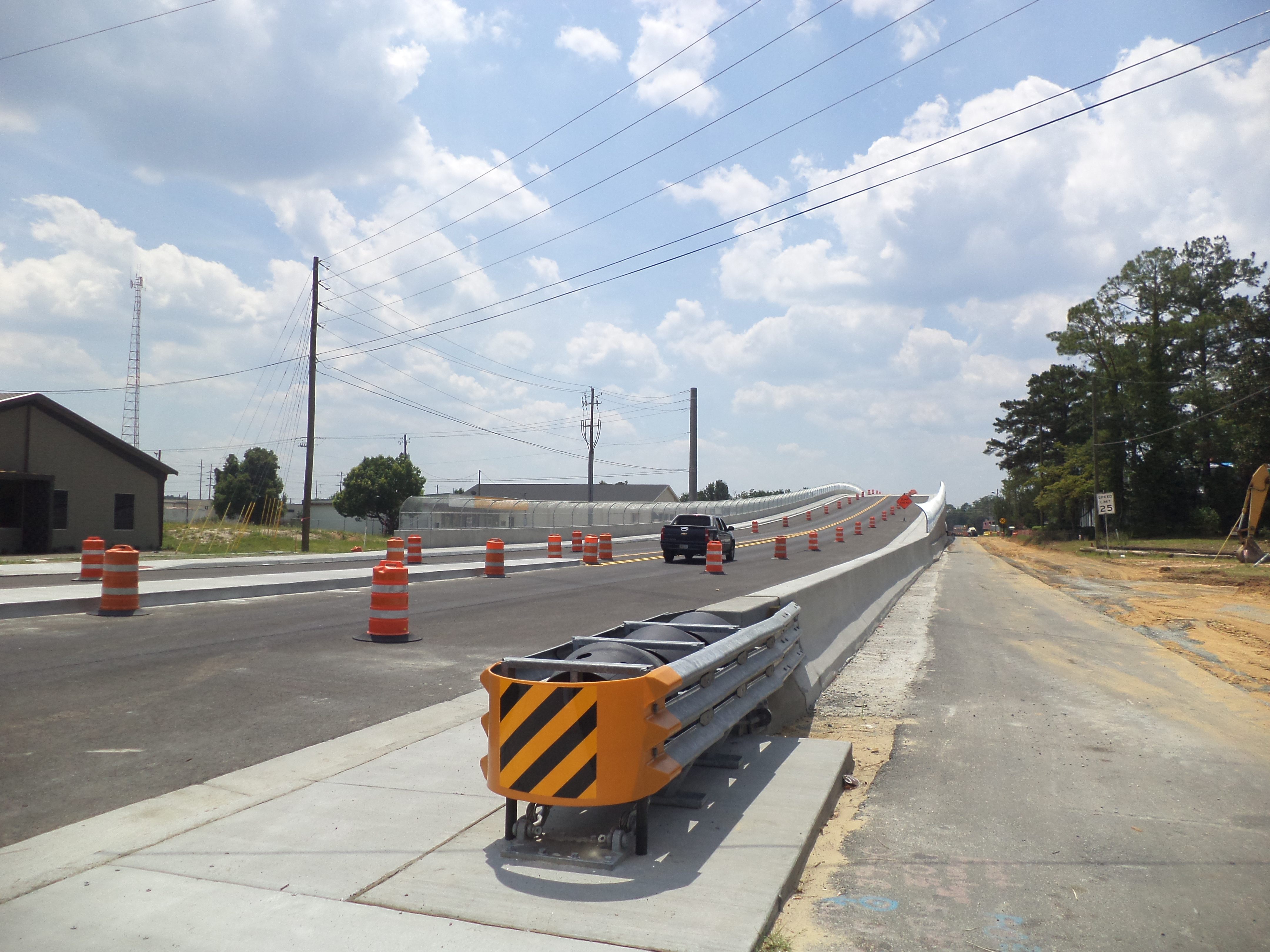 GA38/US84/221 Overpass, Valdosta, Lowndes County, Georgia